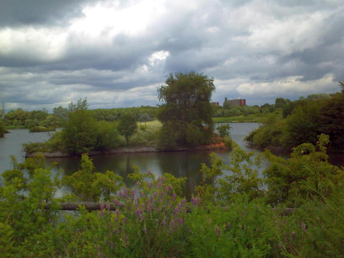 Sheepwash Urban Park lake, Great Bridge/West Bromwich